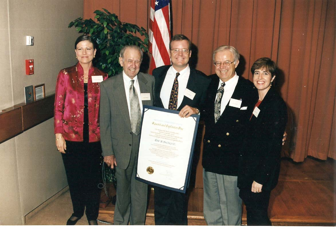 Lee R. Berger with his family receiving the first National Geogrpahic Prize for Research and ExplorationPictured Left to Right: Vernita Berger (mother in law),Arthur B. Berger (grandfather), Lee Berger, Arthur L. Berger (father), Jacqueline Berger (wife)